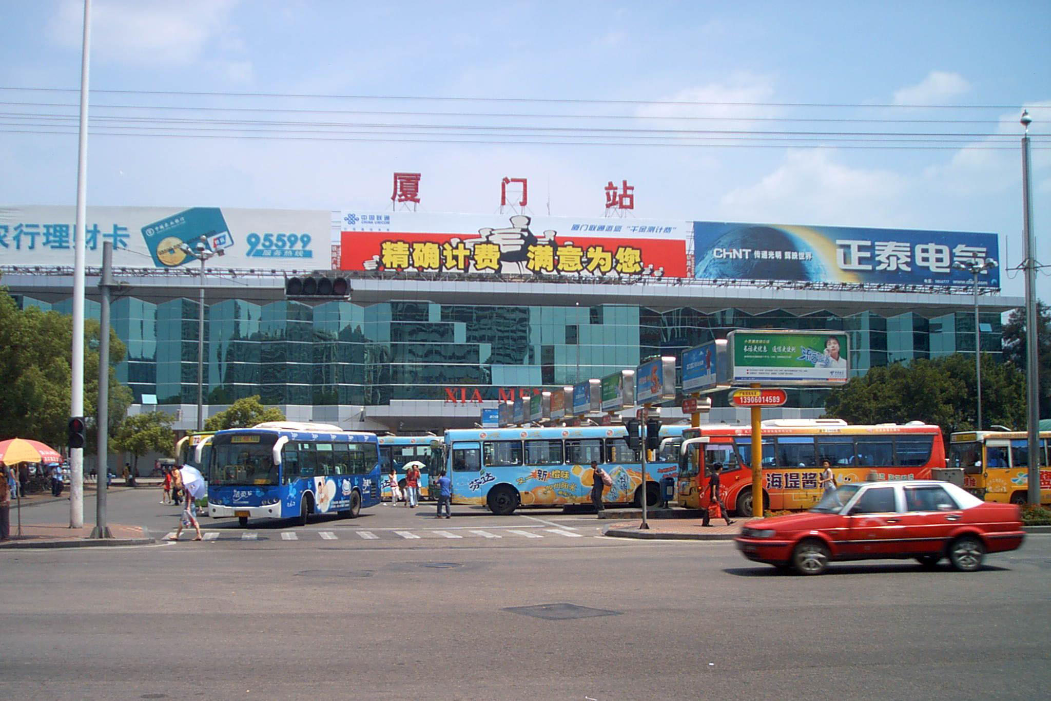 Xiamen Railway Station